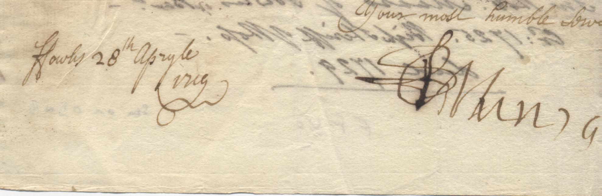 Signiture of Sir Robert Munro, 5th Baronet in an agreement with the king